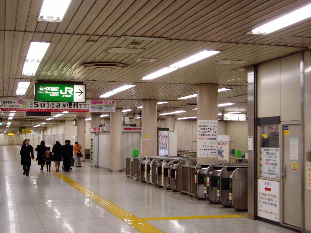 JR East Shin-Nihombashi Station Gate